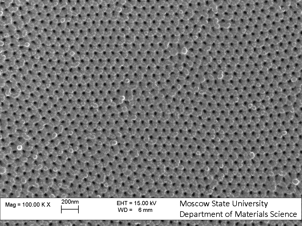 Top view SEM image of anodic alumina obtained in oxalic acid at 40 V